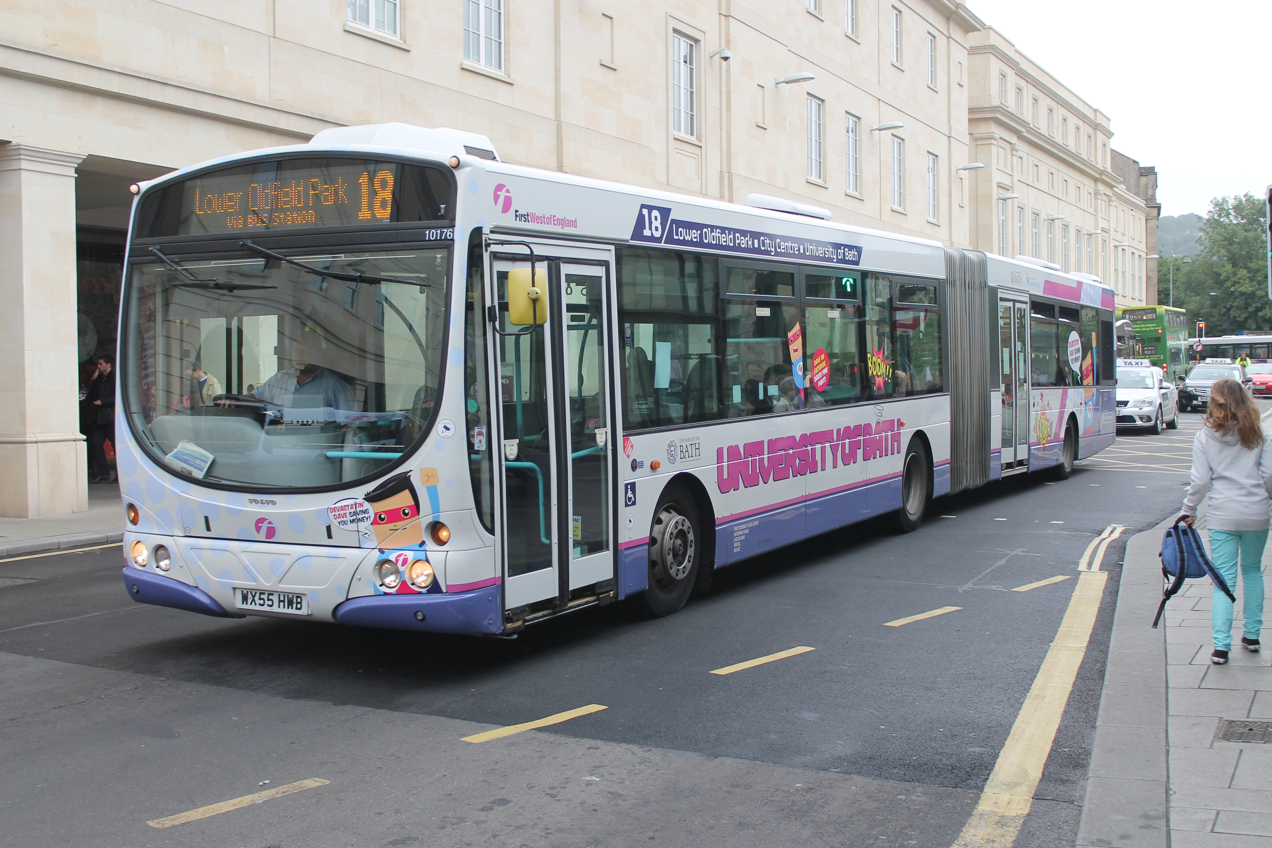 WX55HWB is a Volvo B7LA bus with a Wright Eclipse Fusion articulated body. Here it is seen on the 18 service to Lower Oldfield Park. It is branded in a colourful University of Bath livery. Bath, 14/8/2013